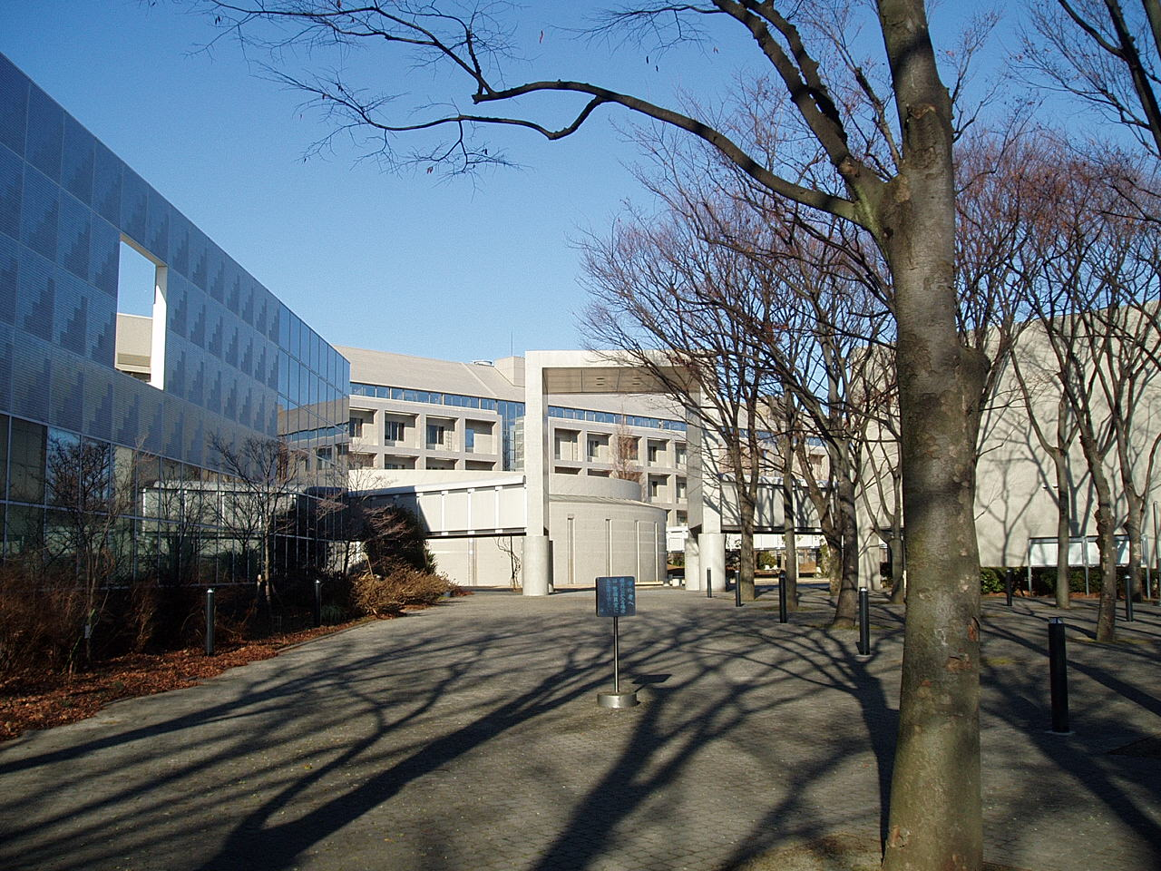 Arakawa Campus (Faculty of Health Sciences), Tokyo Metropolitan University. Located in Arakawa-ku, Tokyo, Japan.